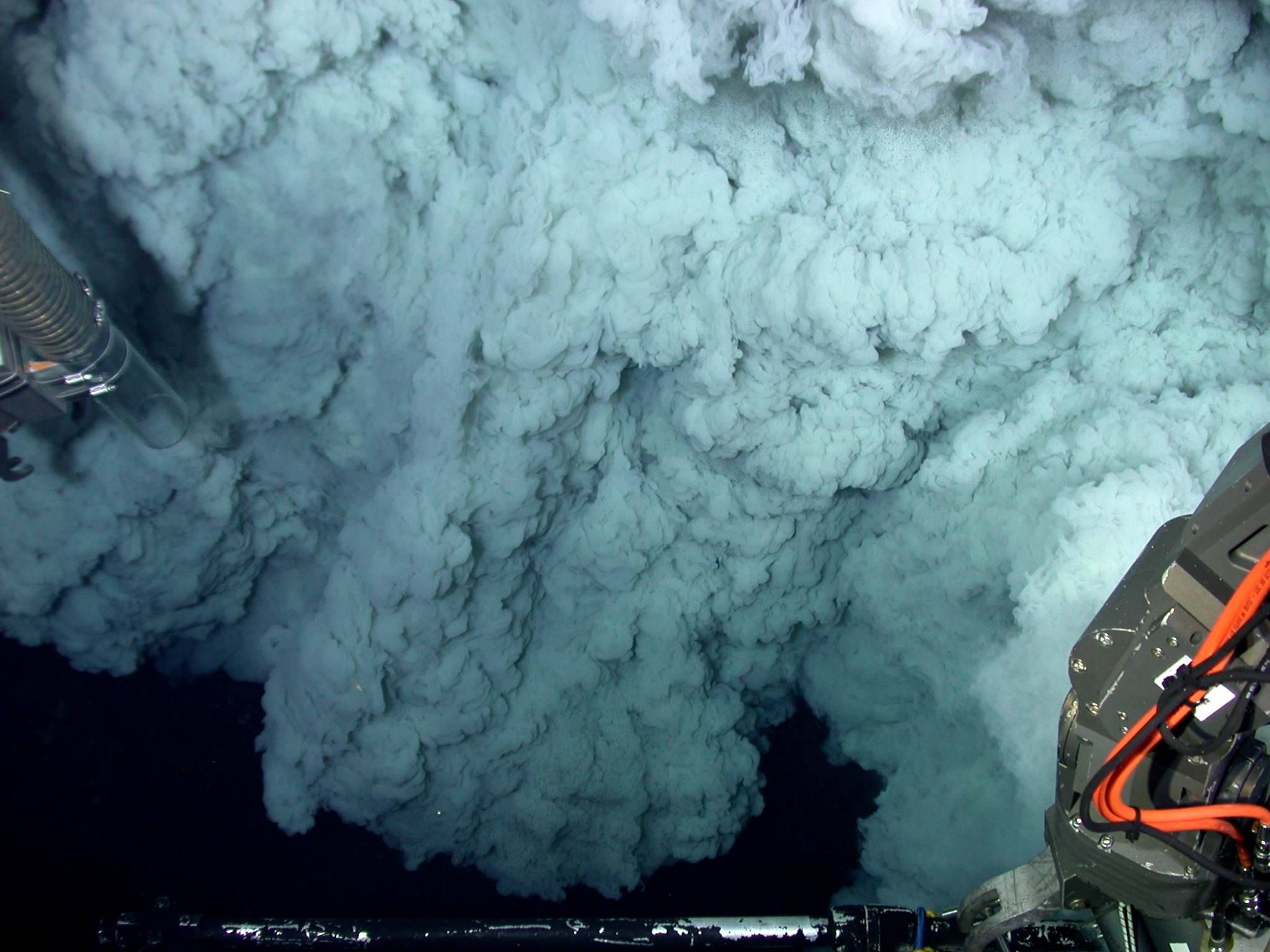 Ring of Fire 2006 Expedition. Diving at NW Rota-1 Brimstone Pit. A raging cloud of hydrothermal effluents venting explosively. It might be time to start retrieving the ROV.